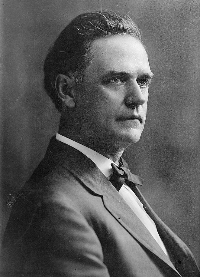 Portrait of Tennessee Governor Thomas Clarke Rye (1863–1953)